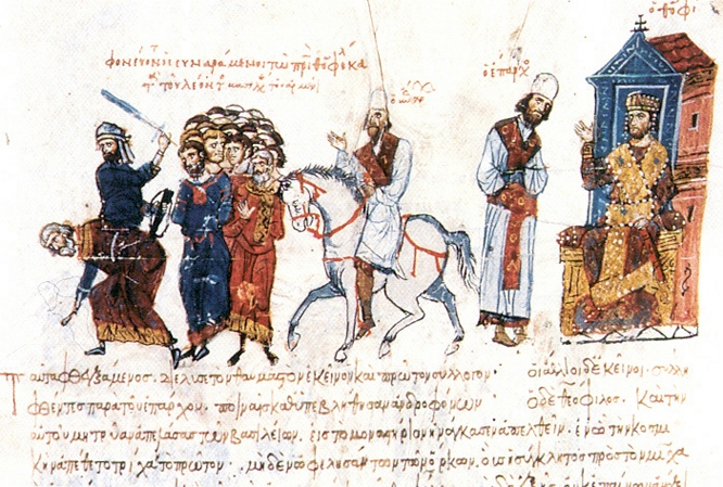 Theophilus еxecutes iconophiles